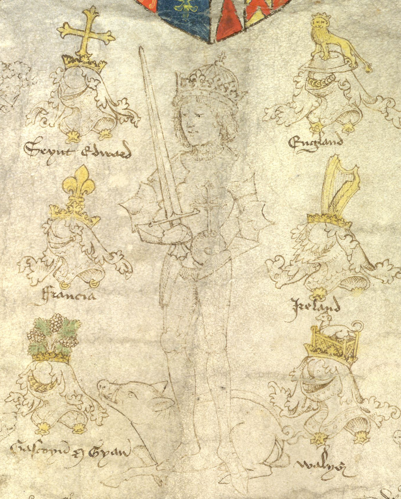 Detail from the Rous Roll showing Richard III, in armour, holding a sword in his right hand and an orb in his left hand, a boar at his feet, and six helms and crests alongside.